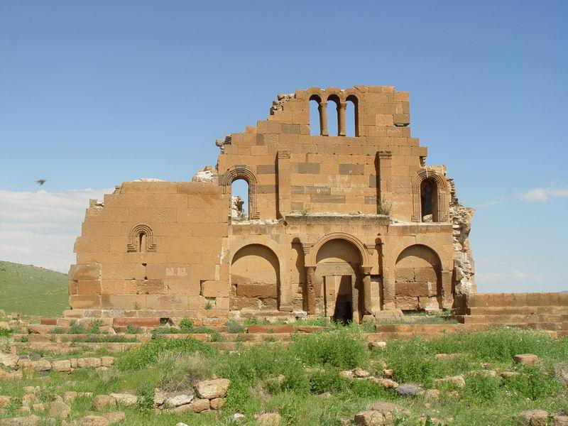 Yererouk basilica.